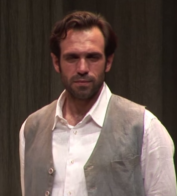 Spanis Actor Alberto Iglesias